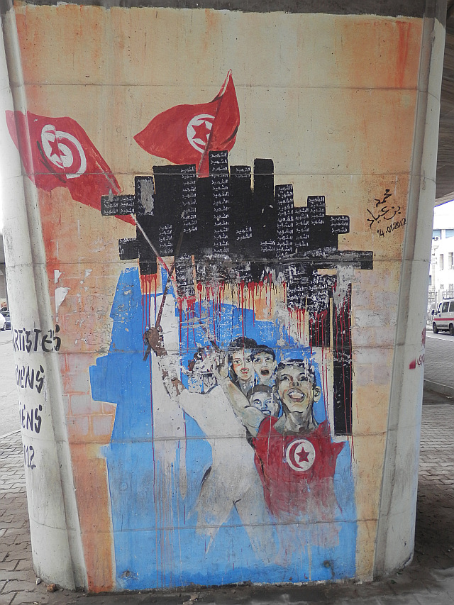 Graffiti under the Motorway of Tunis, Tunesia